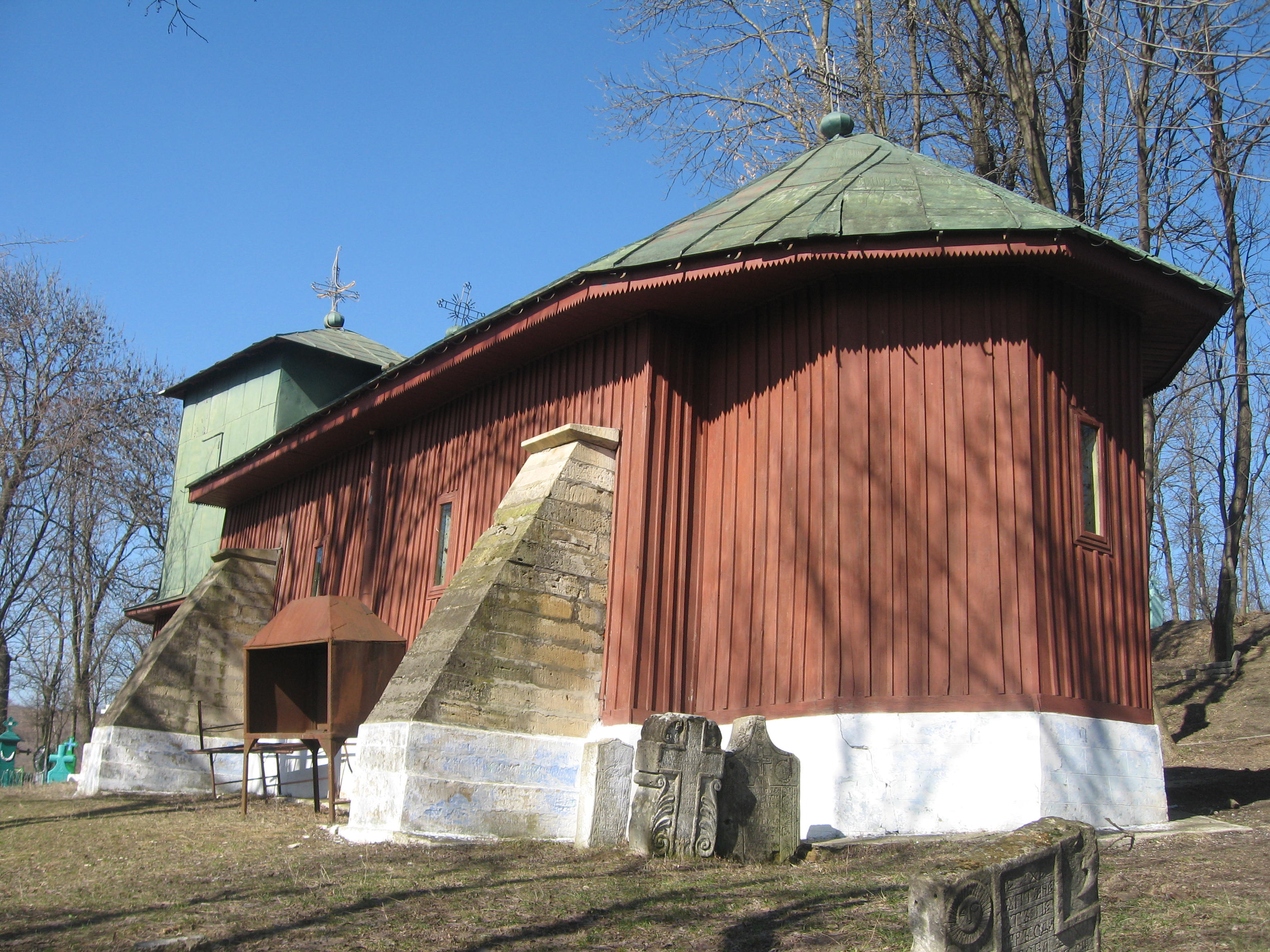 Biserica de lemn din Scheia